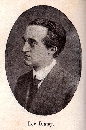 Lev Blatný (1894-1930), czech palywriter